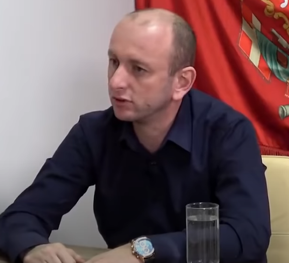 Milan Knežević, Montenegrin politician